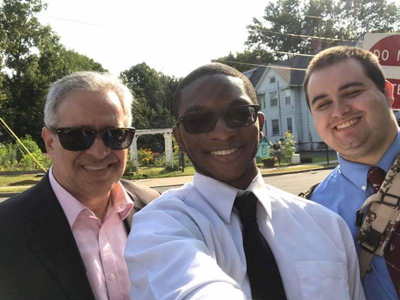 This is a photo of Former Middletown Mayor Sebastian Giuliano with Councilman Ed Ford, Jr. and Former Inland Wetland Commissioner Anthony Moran